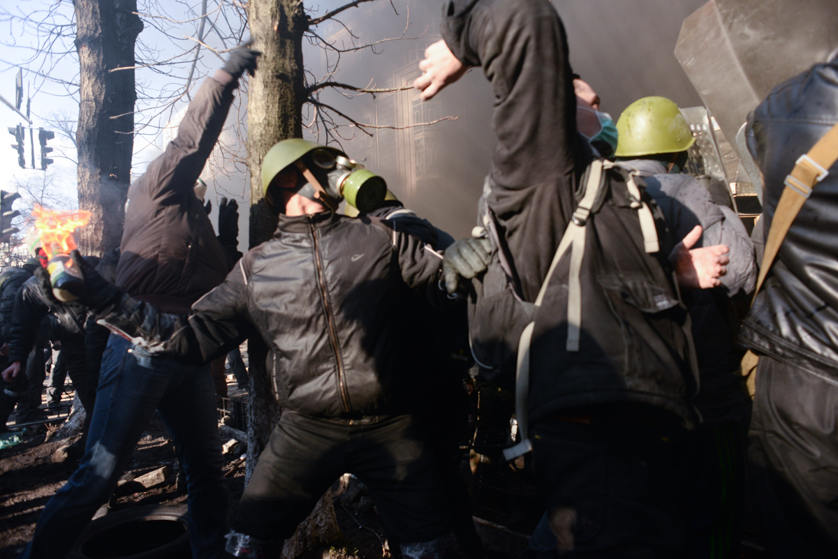 A protester holding Molotov Cocktail seen as the clashes develop in Kyiv, Ukraine. Events of February 18, 2014-2